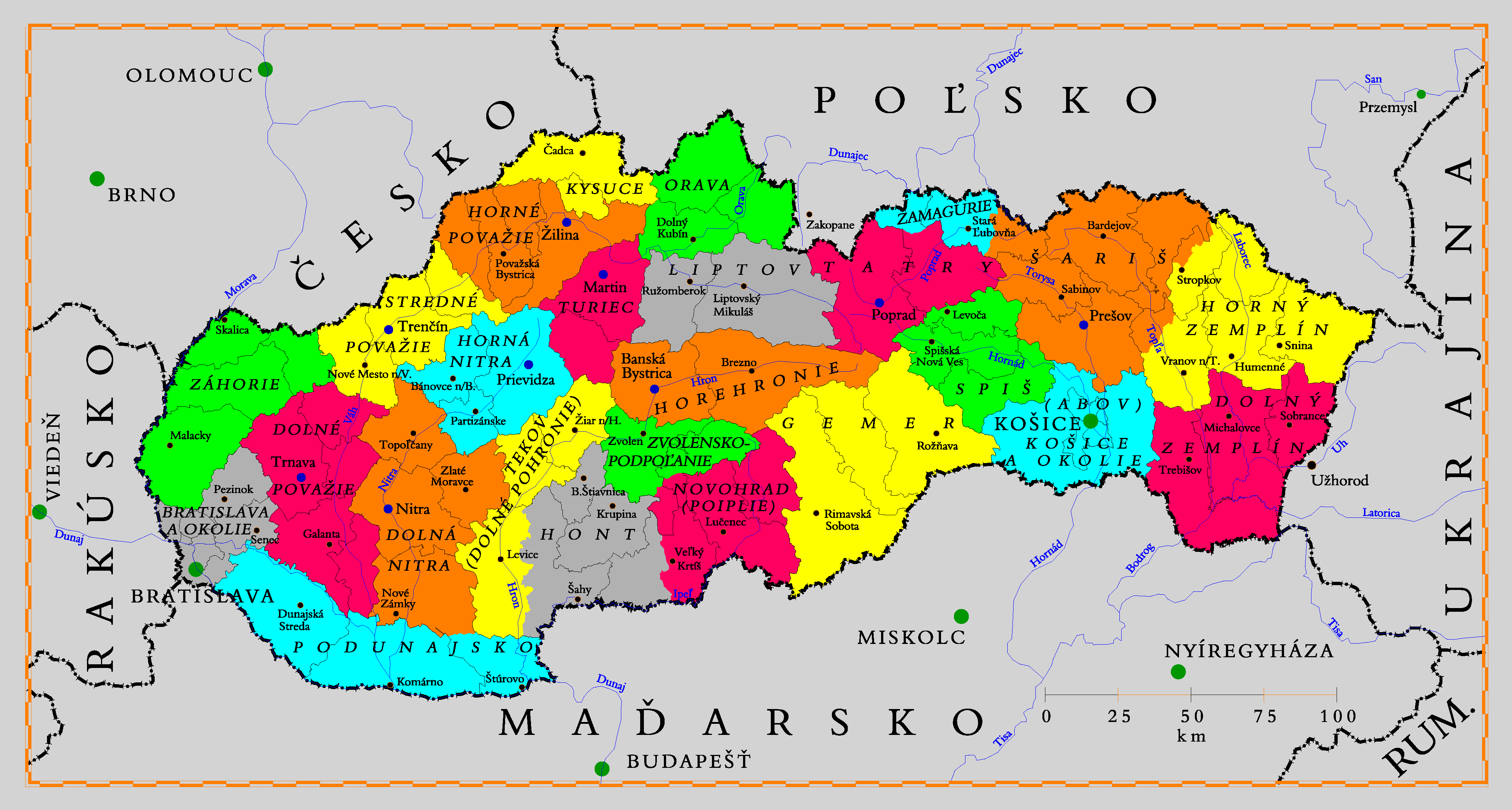 Map of tourism regions of Slovakia